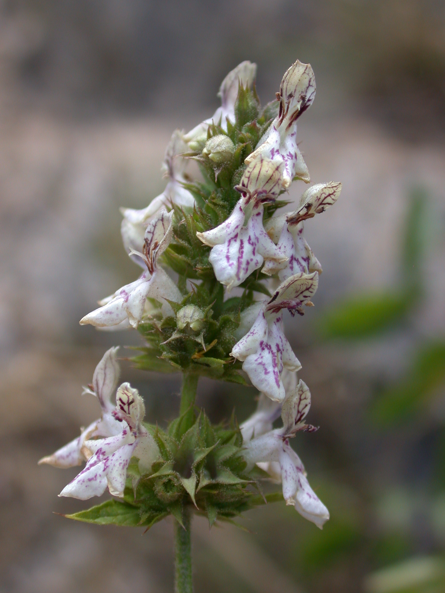 Stachys distans Benth. (אשבל מופסק), Mount Carmel, Israel, April 29, 2008.